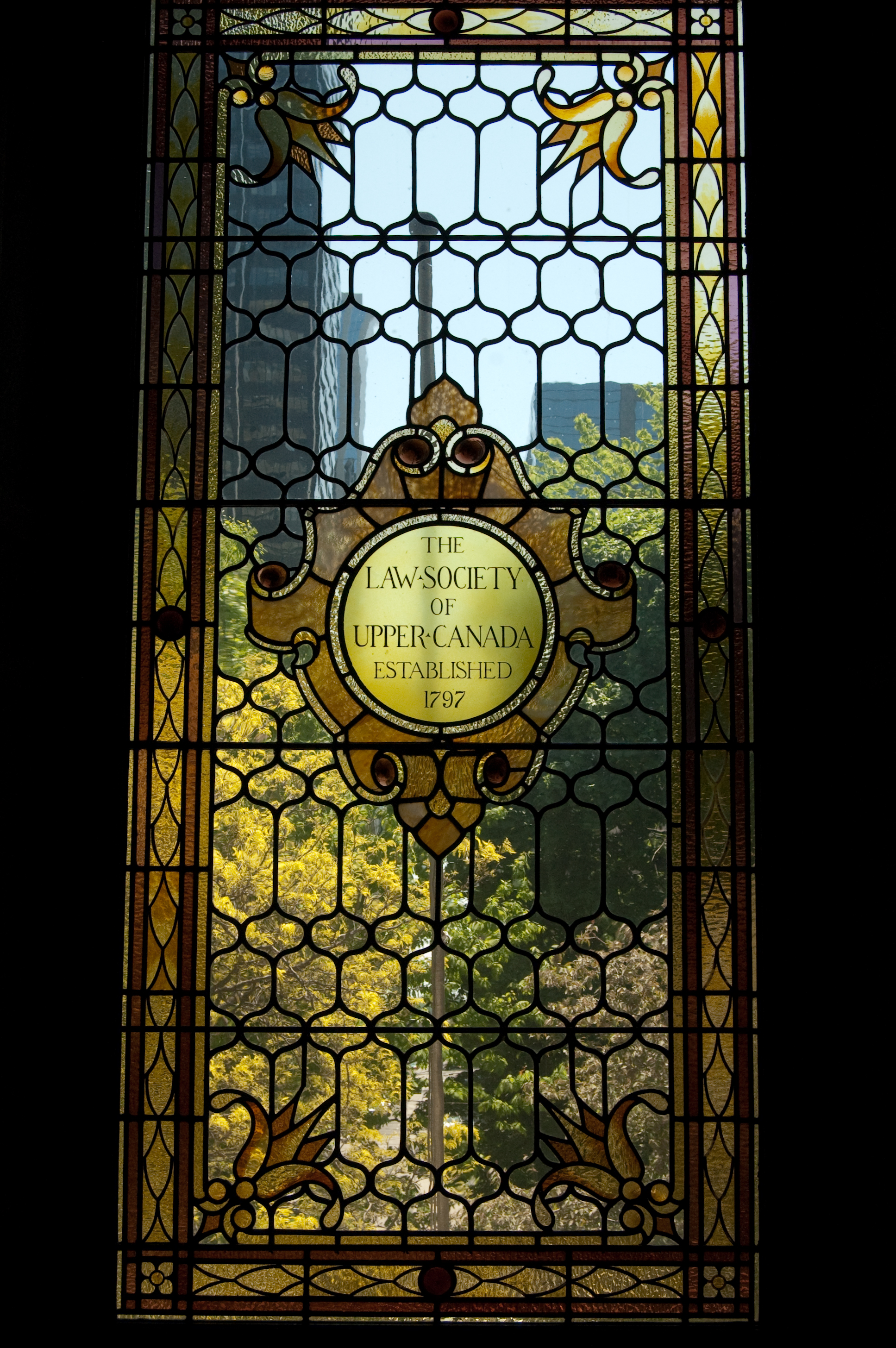 Stained glass window at Osgoode Hall, Toronto, Canada.